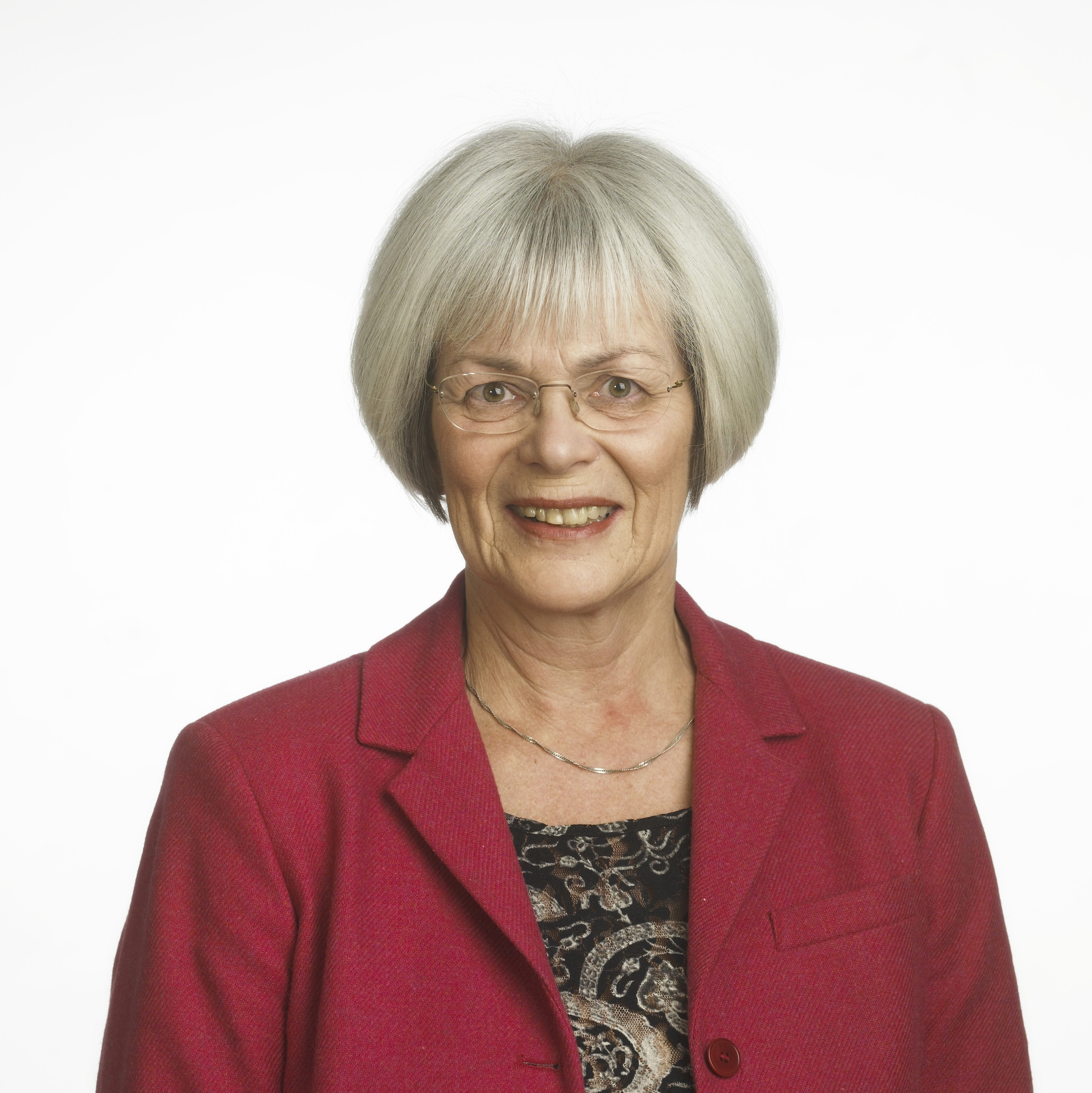 Tora Aasland Keywords: Tora Aasland